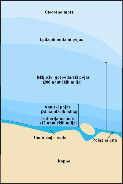 Sea areas in international rights.